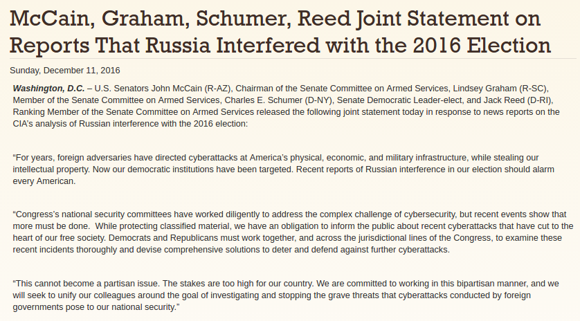 McCain, Graham, Schumer, Reed Joint Statement on Reports That Russia Interfered with the 2016 Election Sunday, December 11, 2016 Washington, D.C. – U.S. Senators John McCain (R-AZ), Chairman of the Senate Committee on Armed Services, Lindsey Graham (R-SC), Member of the Senate Committee on Armed Services, Charles E. Schumer (D-NY), Senate Democratic Leader-elect, and Jack Reed (D-RI), Ranking Member of the Senate Committee on Armed Services released the following joint statement today in response to news reports on the CIA’s analysis of Russian interference with the 2016 election: “For years, foreign adversaries have directed cyberattacks at America’s physical, economic, and military infrastructure, while stealing our intellectual property. Now our democratic institutions have been targeted. Recent reports of Russian interference in our election should alarm every American. “Congress’s national security committees have worked diligently to address the complex challenge of cybersecurity, but recent events show that more must be done. While protecting classified material, we have an obligation to inform the public about recent cyberattacks that have cut to the heart of our free society. Democrats and Republicans must work together, and across the jurisdictional lines of the Congress, to examine these recent incidents thoroughly and devise comprehensive solutions to deter and defend against further cyberattacks. “This cannot become a partisan issue. The stakes are too high for our country. We are committed to working in this bipartisan manner, and we will seek to unify our colleagues around the goal of investigating and stopping the grave threats that cyberattacks conducted by foreign governments pose to our national security.”